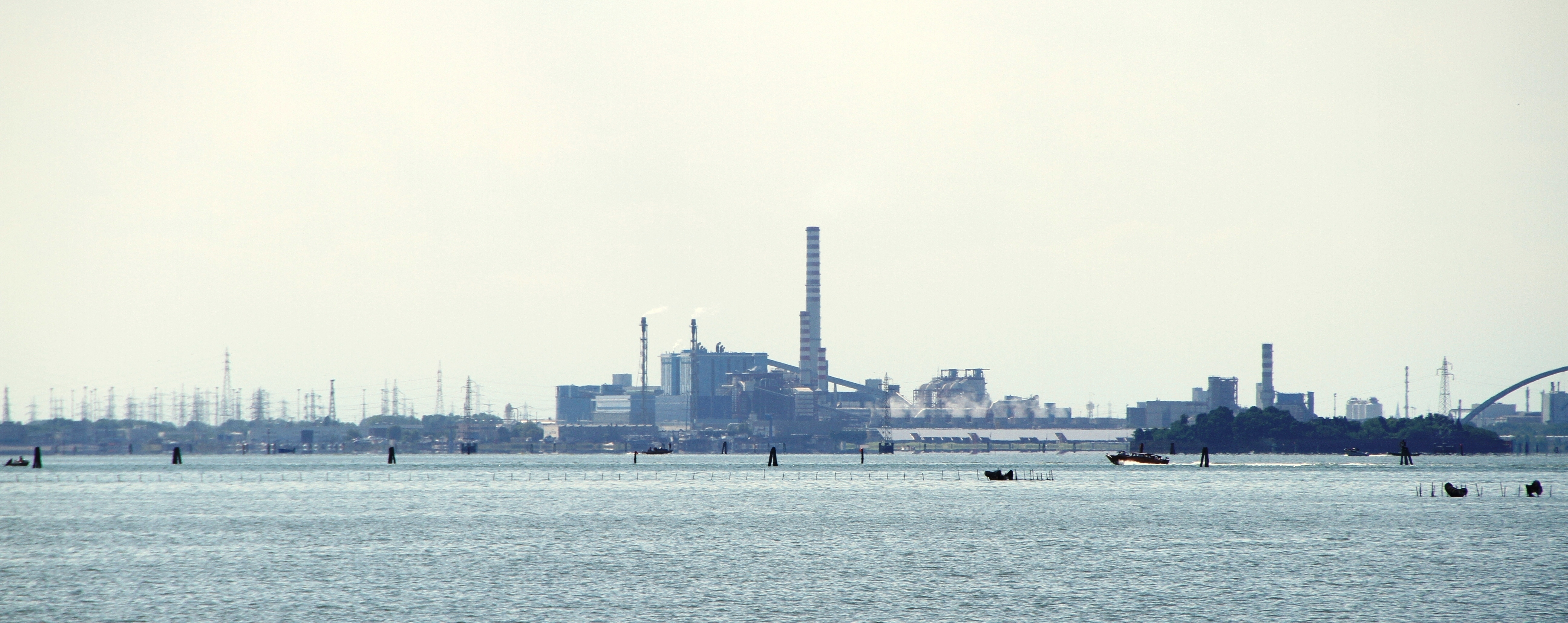 The large thermal Power plant in Mestre-Fusina, operated by ENEL. Just west of Venice, Italy